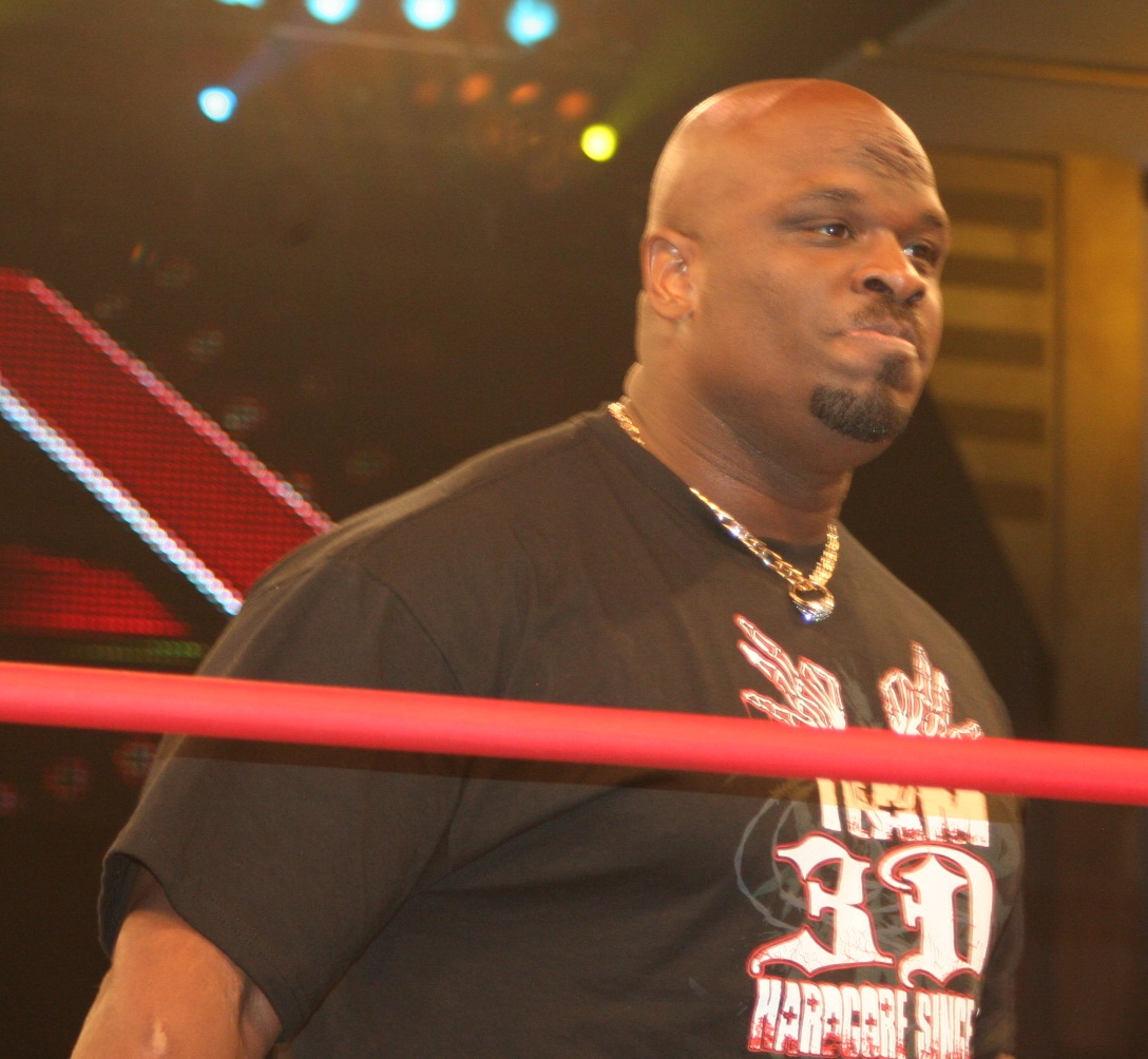 Professional wrestler Devon Hughes from July 2010.